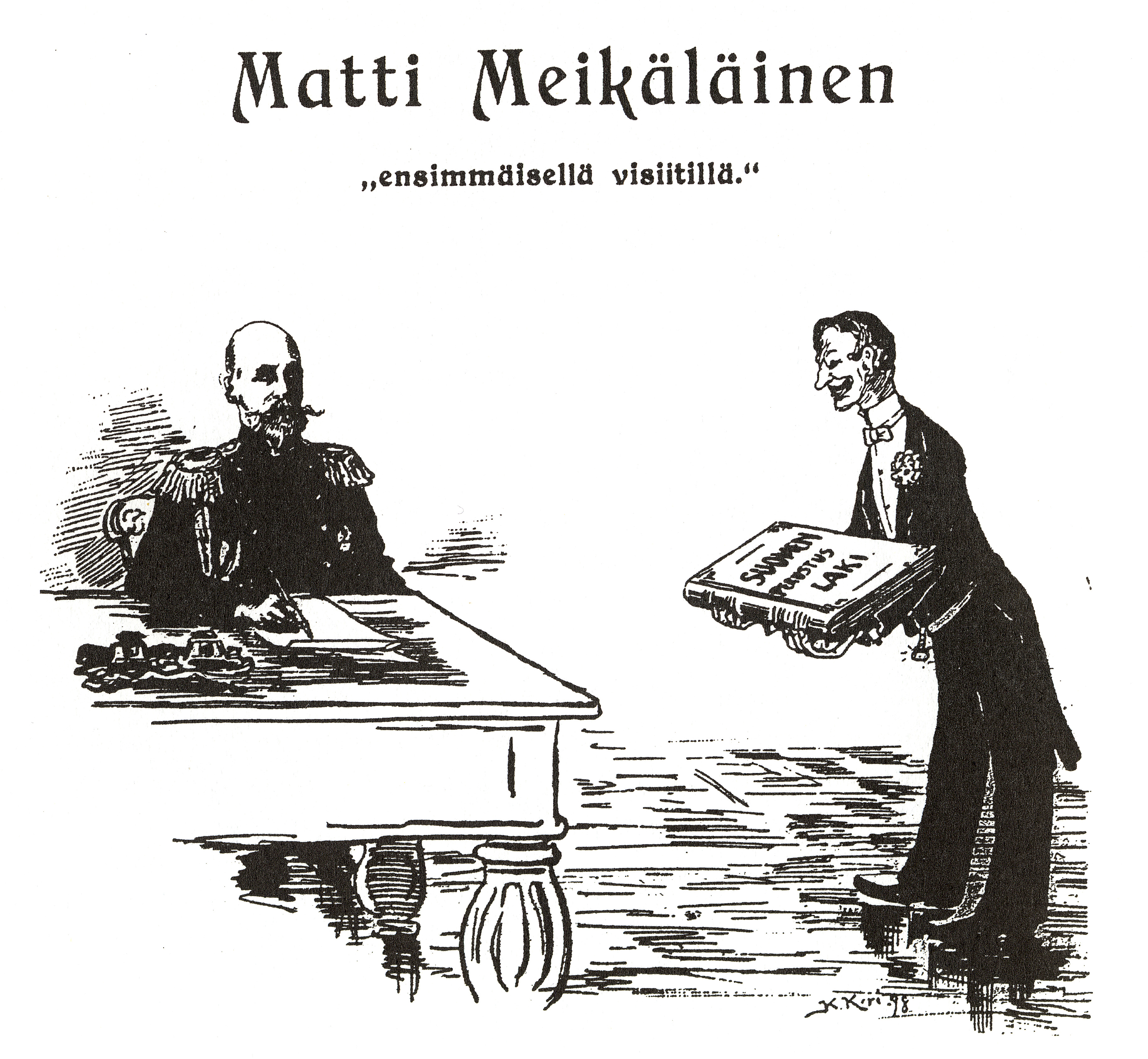 "First visit": Finnish humour magazine Matti Meikäläinen gives the Finnish constitution to new Governor General Nikolai Bobrikov. Matti Meikäläinen 30.9.1898.